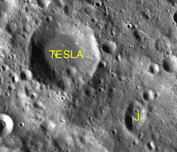 Part of the chart LAC-30 used for the presentation